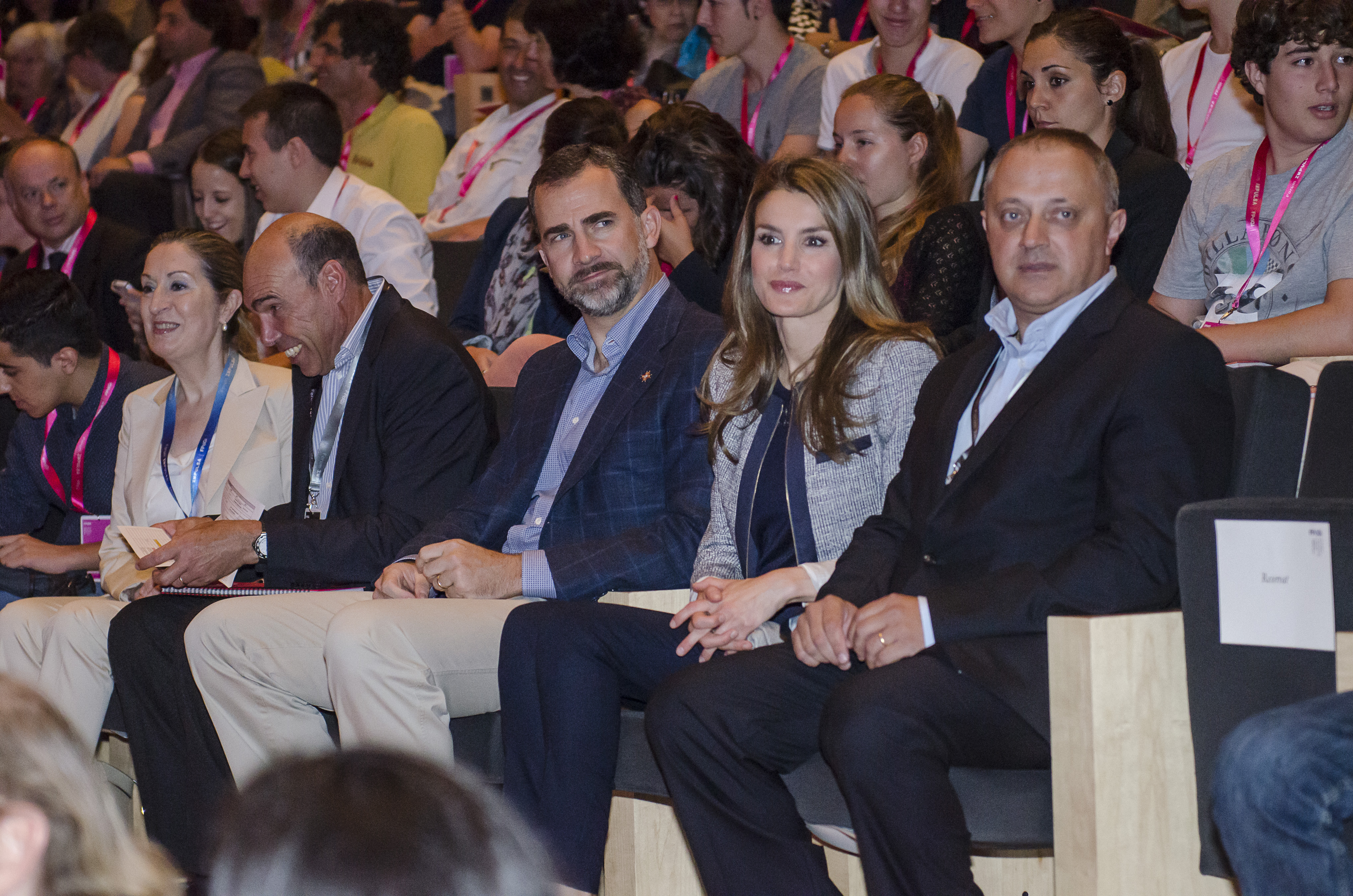 Forum Impulsa 2013 Girona (Spain)